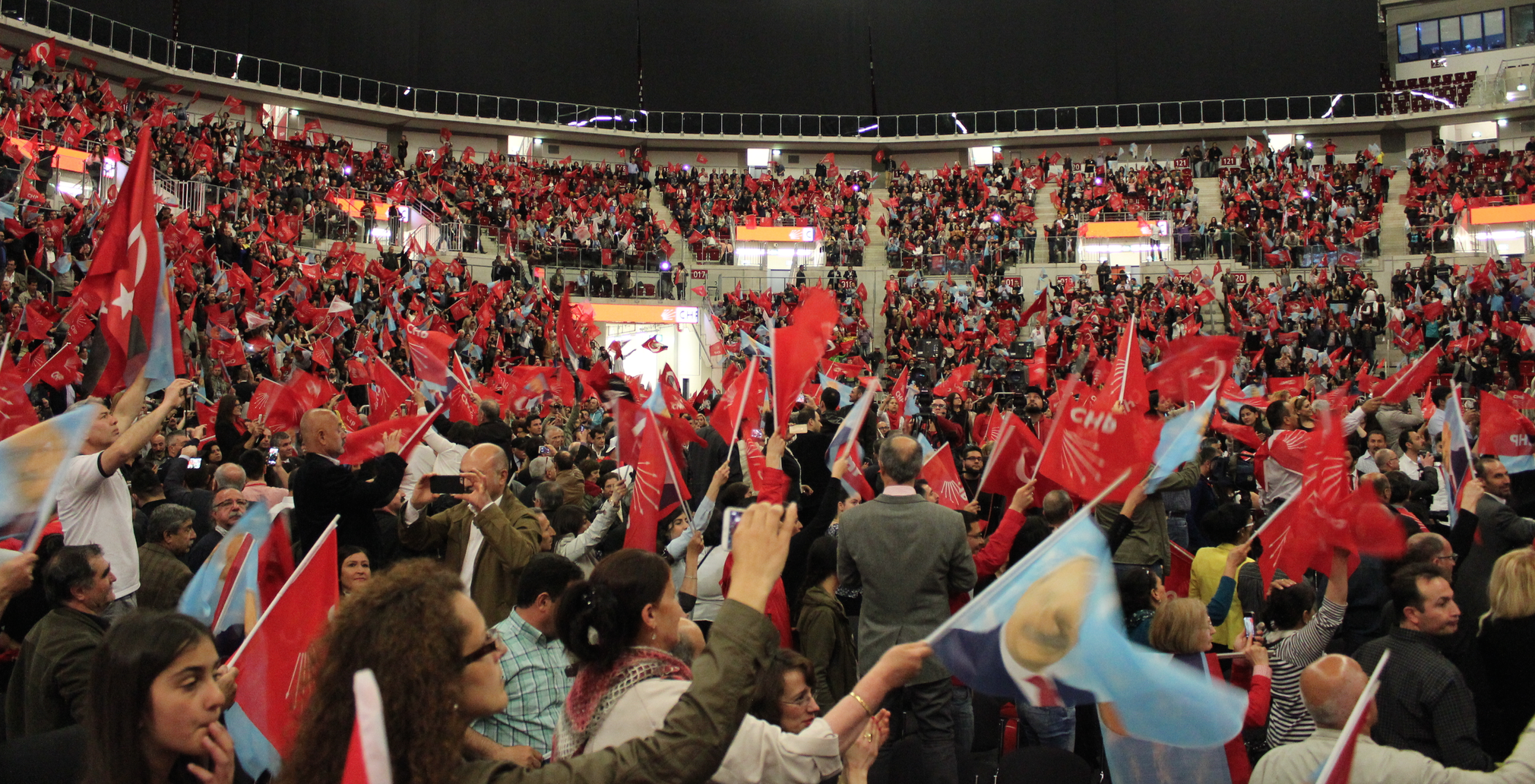 Republican People's Party Dusseldorf rally for the 2015 general election